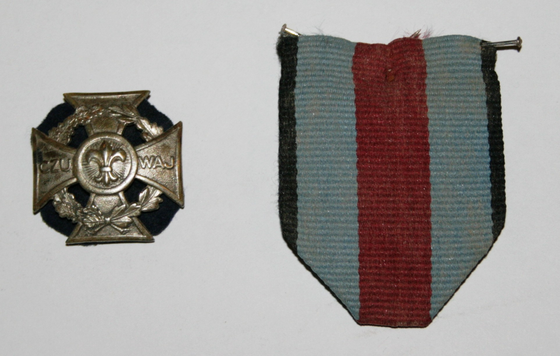 Polish Scout cross and Pro Memoria medal ribbon of Katarzyna Piskorska found at the plane crash site in Smolensk on April 10th, 2010